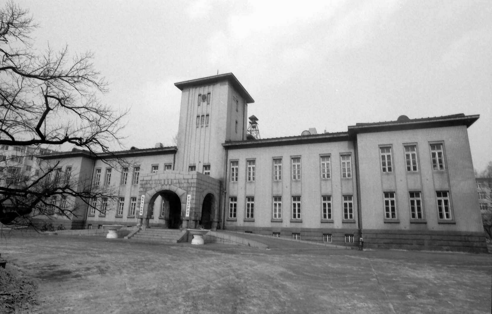 Consulate-General of Japan in Jiandao, which was completed in May 1926. (Current Longjing District Government Office)